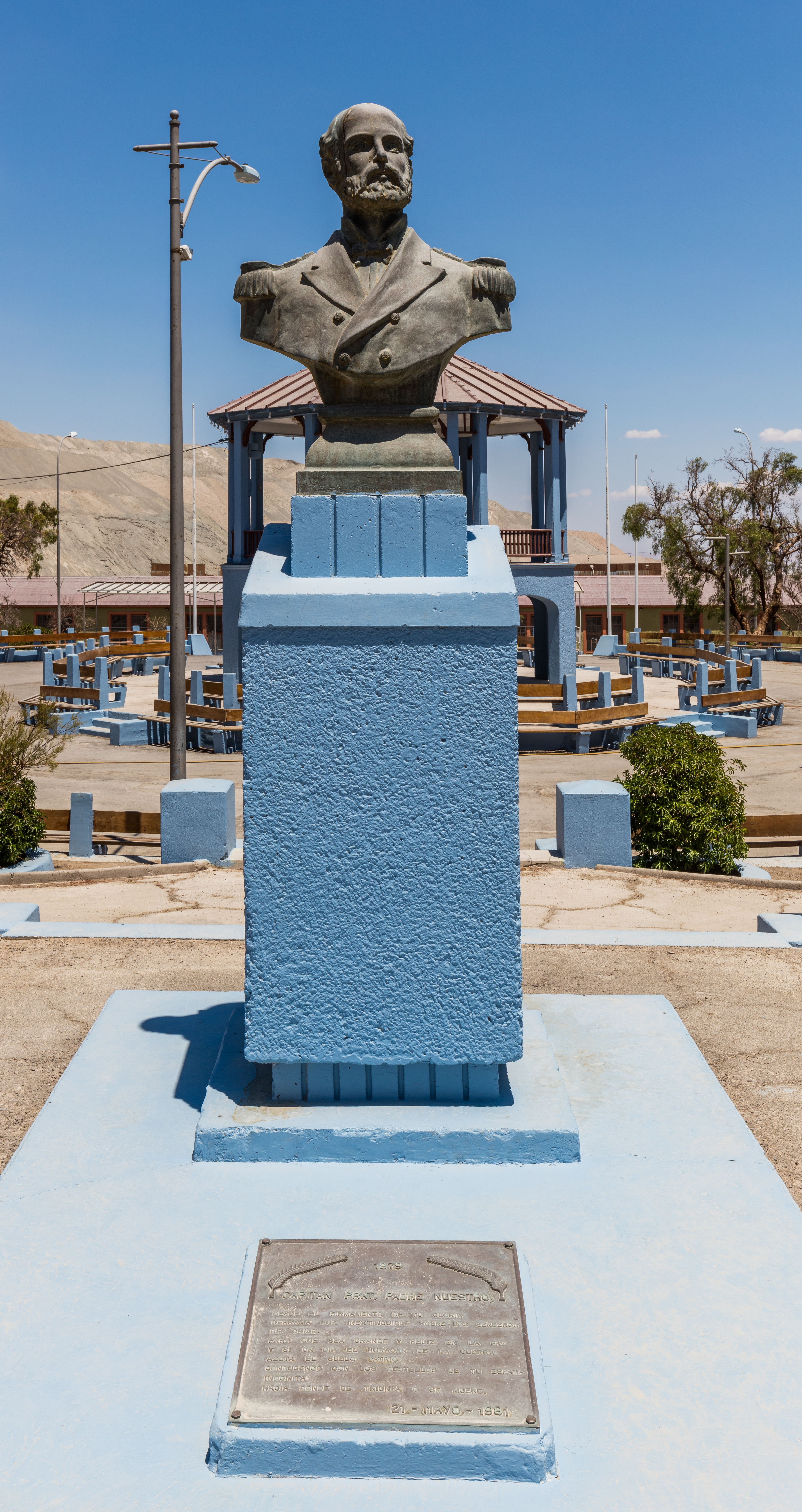 Chuquicamata town, Calama, Chile